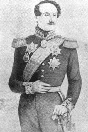 Portrait of Grigore Alexandru Ghica, Prince of Moldavia (?-1857)